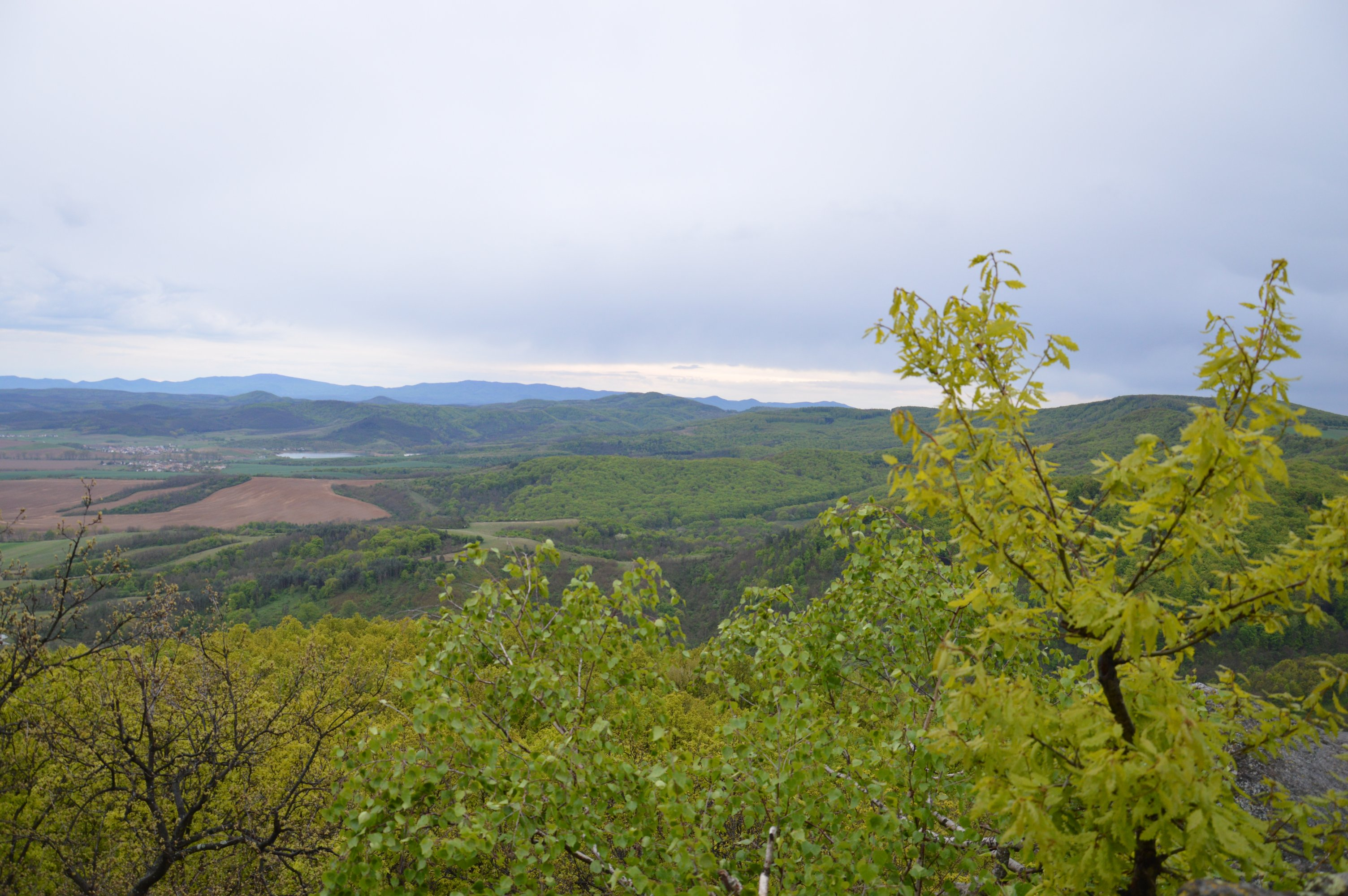 view from Pohansky hrad (Pohansky Castle) - plateau; on the horizon Mátra mountain